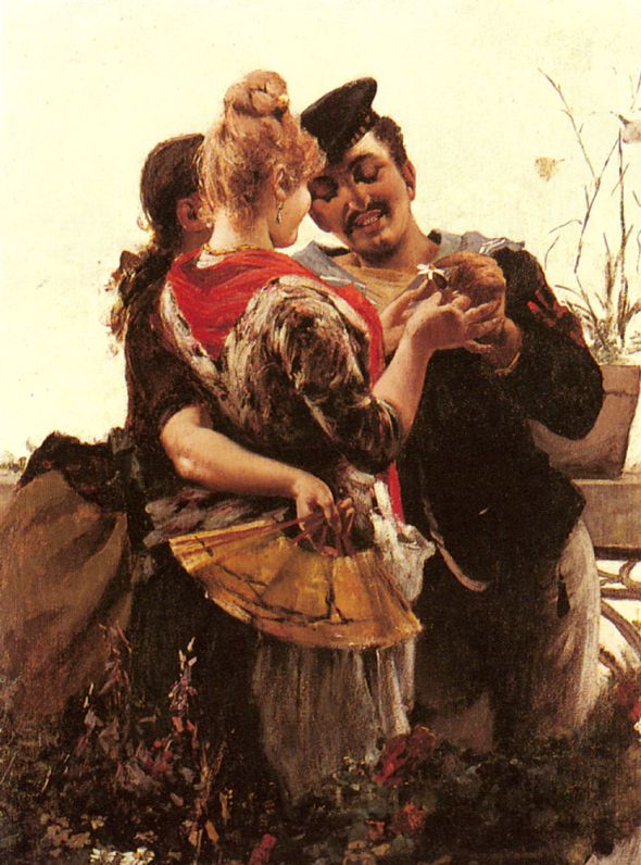 Egisto Lancerotto - She loves me... she loves me not...